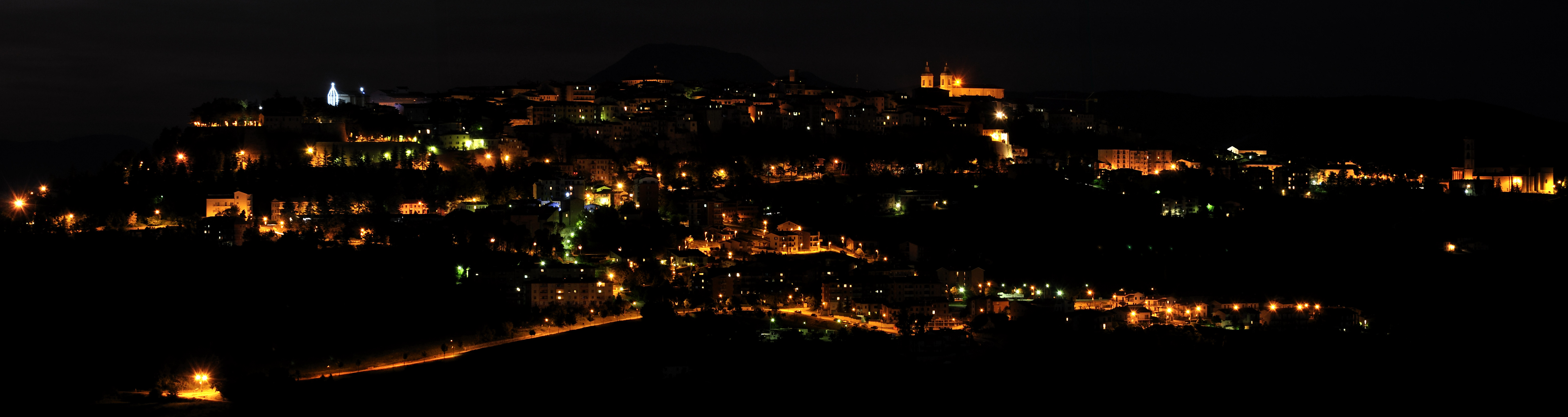 Camerino by night.